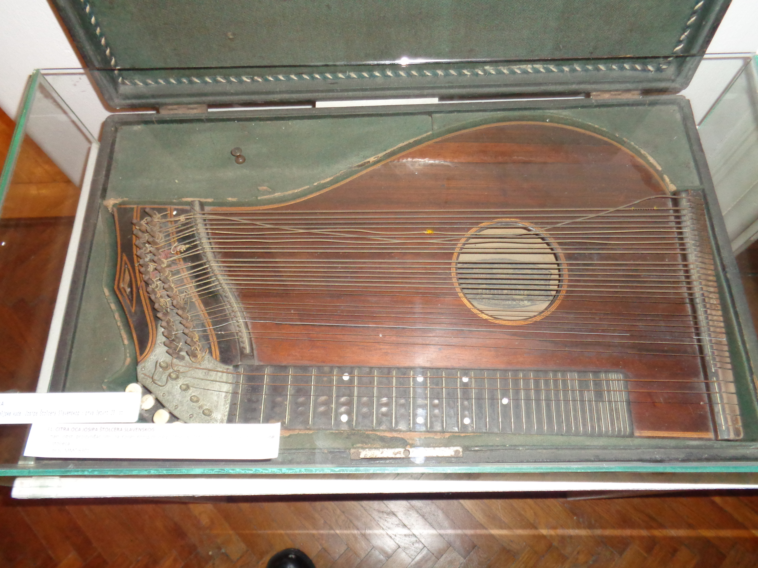 Zither - old musical instrument from Međimurje owned by Josip Štolcer Sr. in the Medjimurje County Museum in Čakovec, Croatia